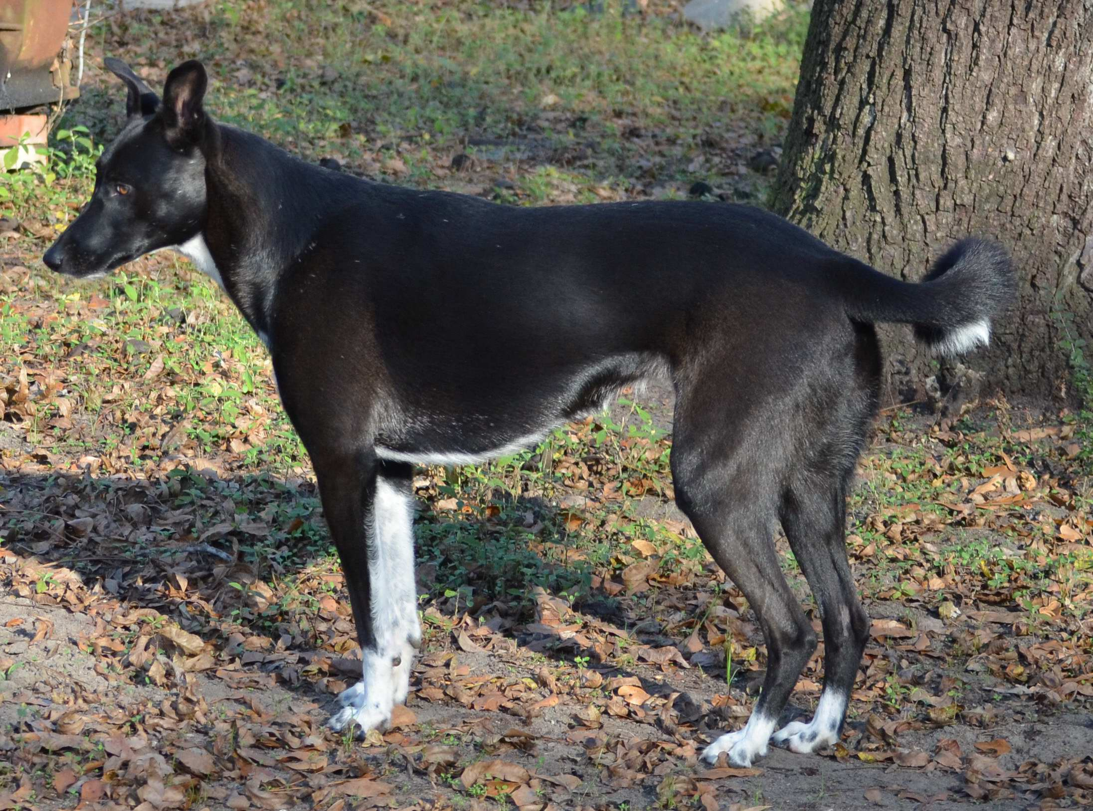 Tippie posing for the camera